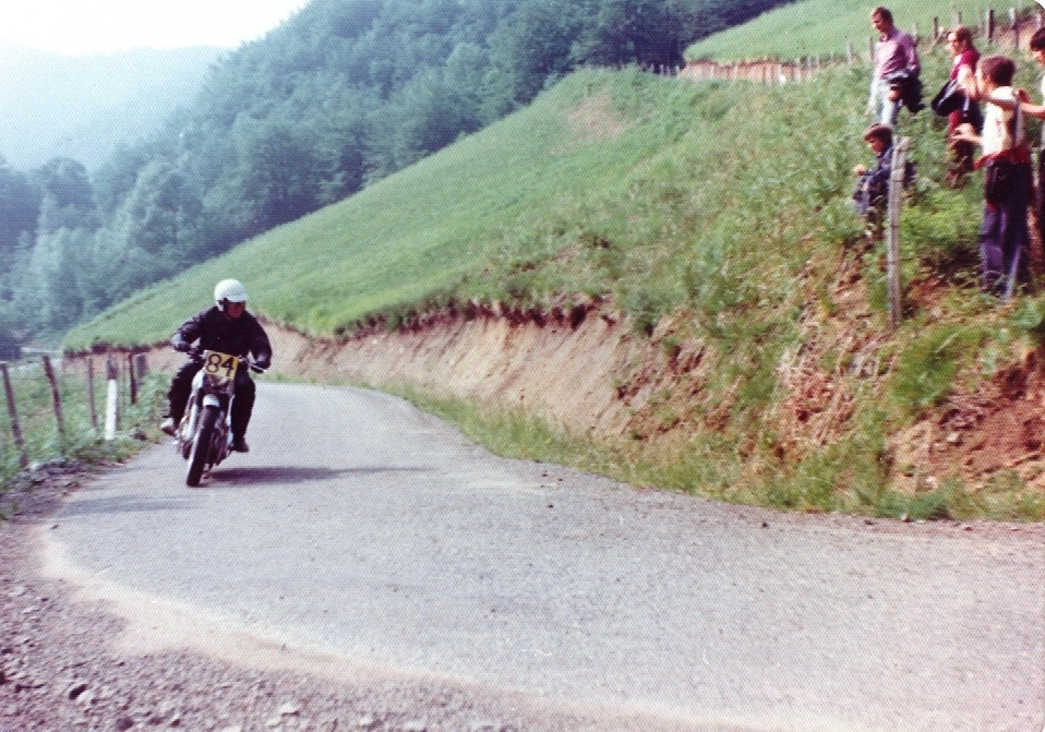 Spectators watch a competitor at the 1975 Circuit Des Pyrenees which was also known as the Rallye Des Pyrenees and formerly the Pau-San Sebastian Rally.